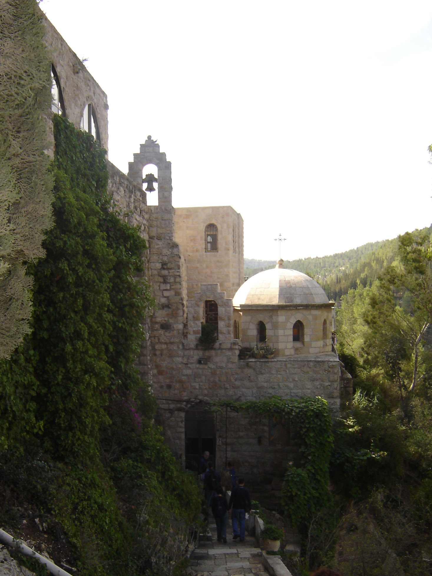 John the baptist "in the desert" Monastery near Jerusalem, Israel